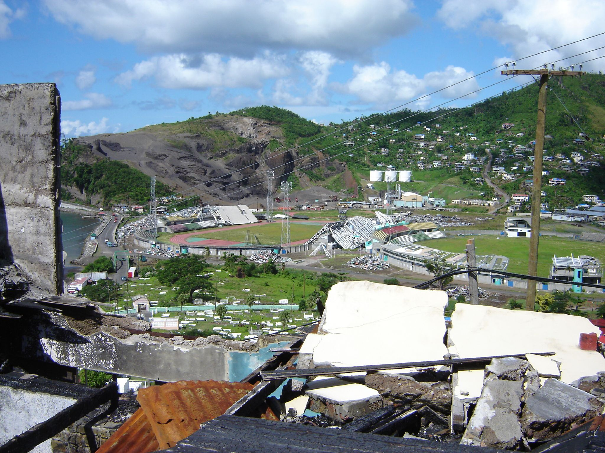 Damage from Hurricane Ivan in Grenada